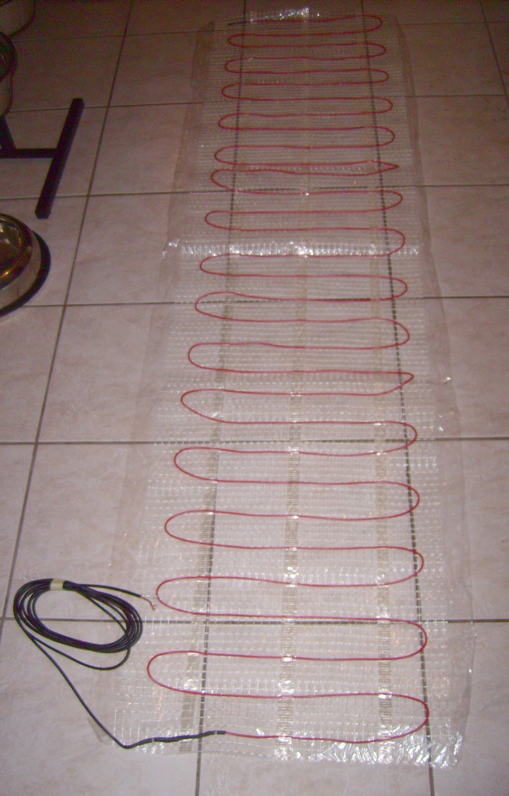 electric floor heating